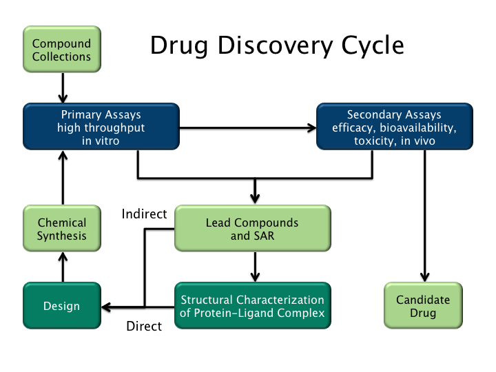 Schematic diagram of the drug discovery cycle.